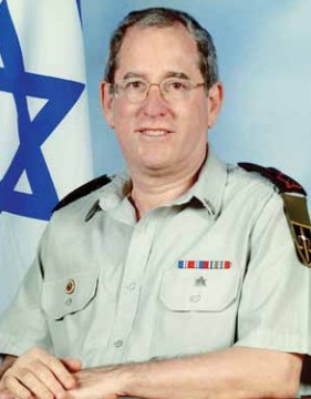 Depicted person: Ilan Shiff